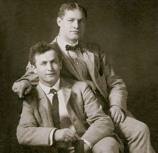 Theodore Hardeen (right) and Harry Houdini